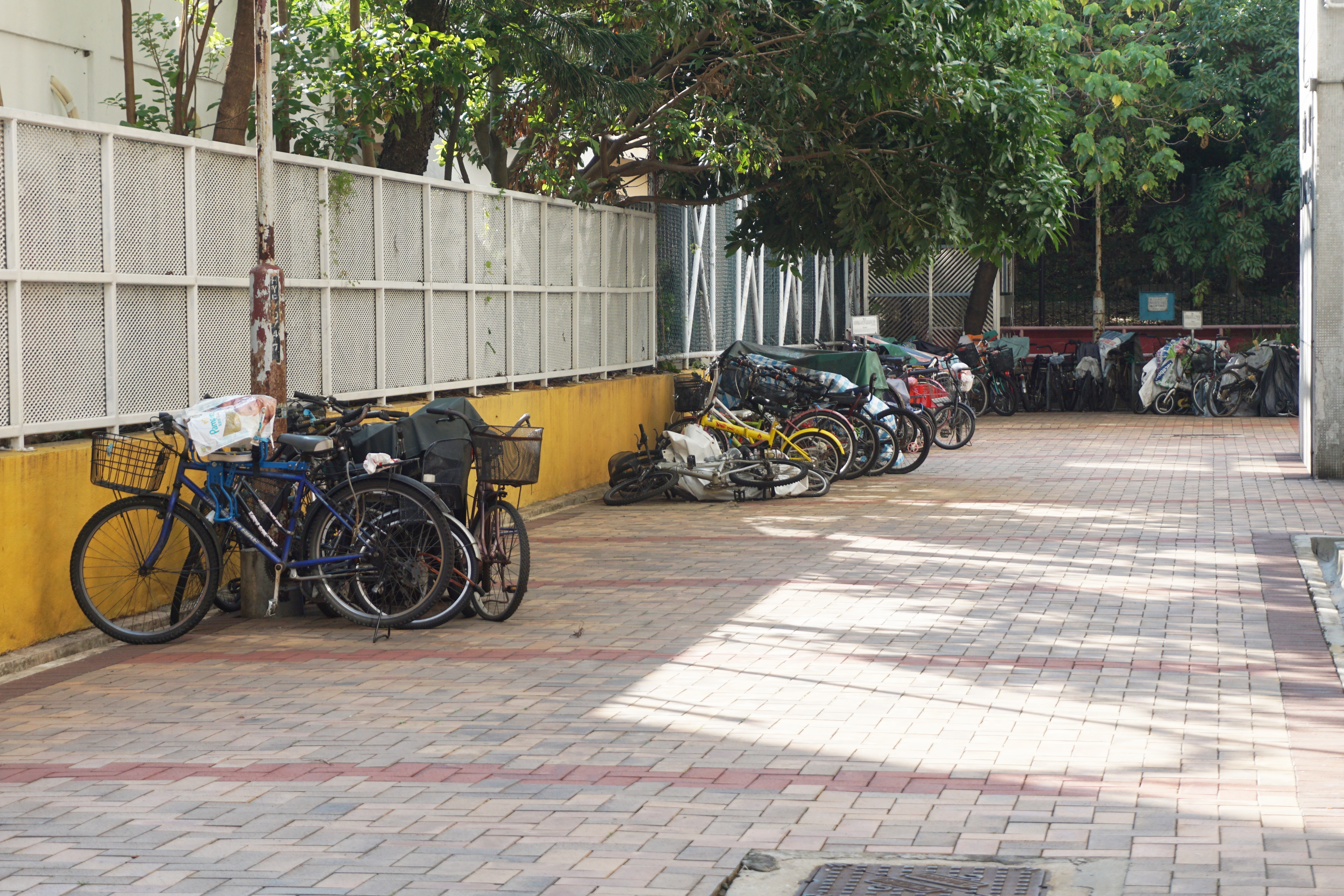 Yuk Po Court in Sheung Shui, Hong Kong.